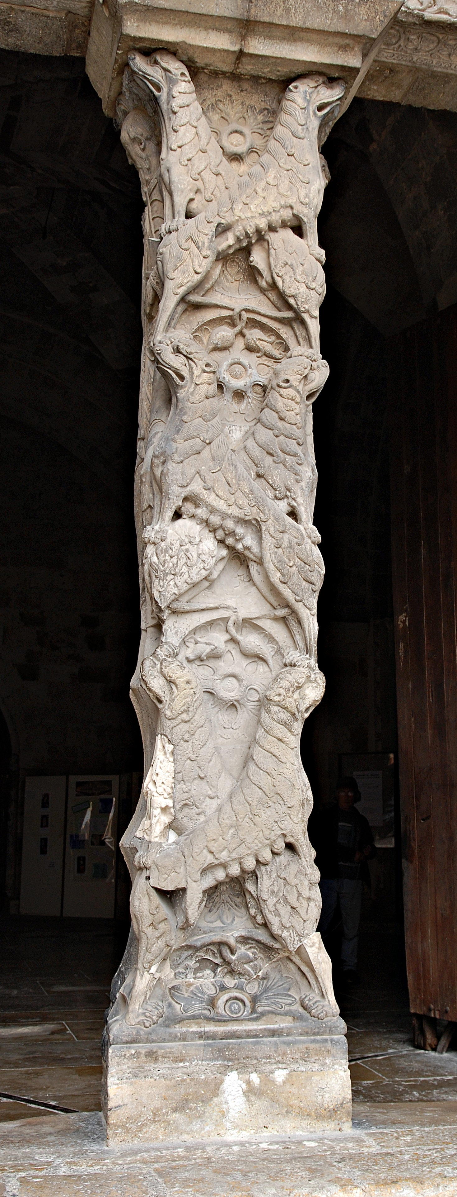 Trumeau. Moissac Abbey